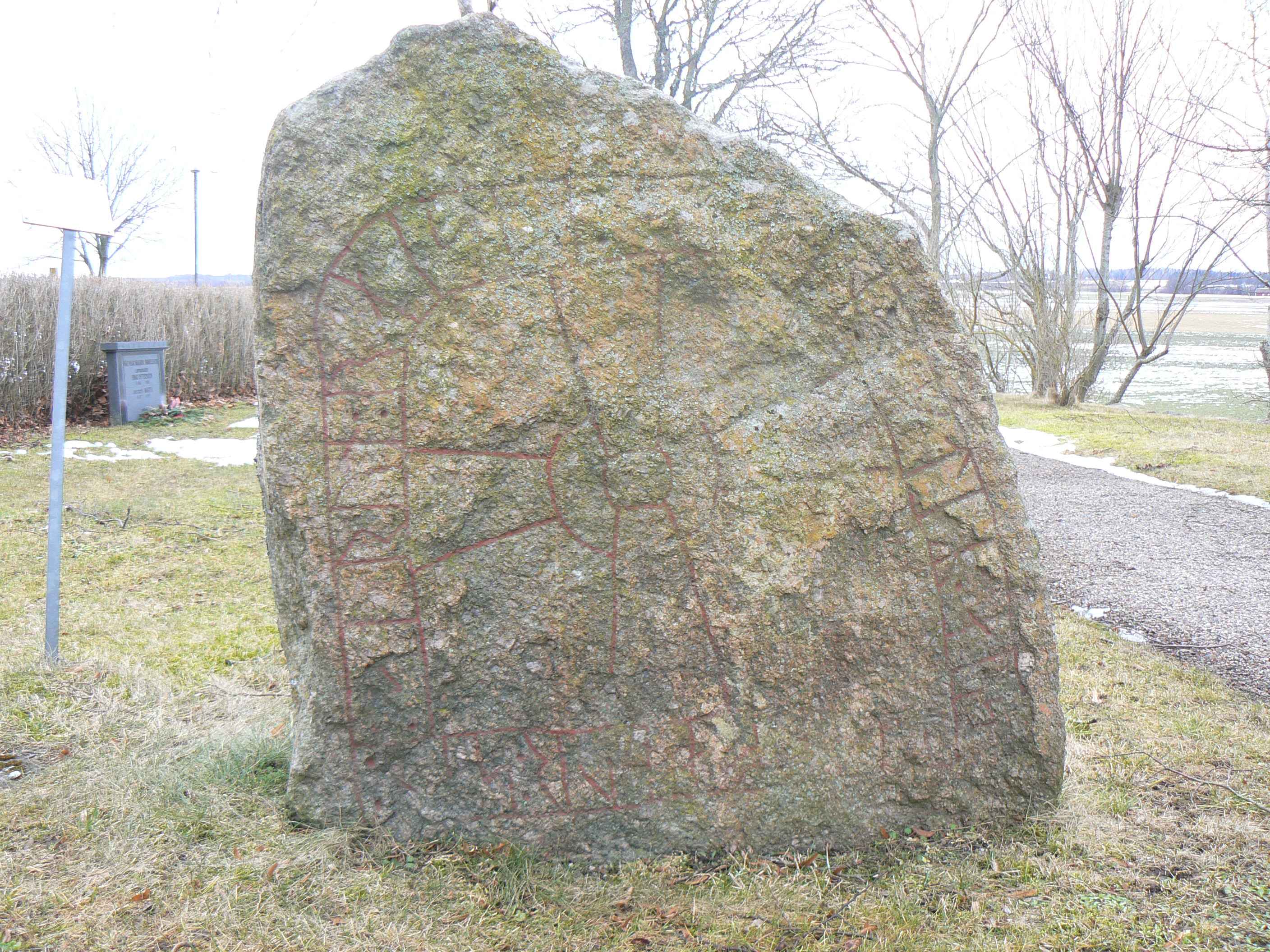 Östergötlands runinskrifter 61, runstone at Flistad Church in Östergötland, Sweden.